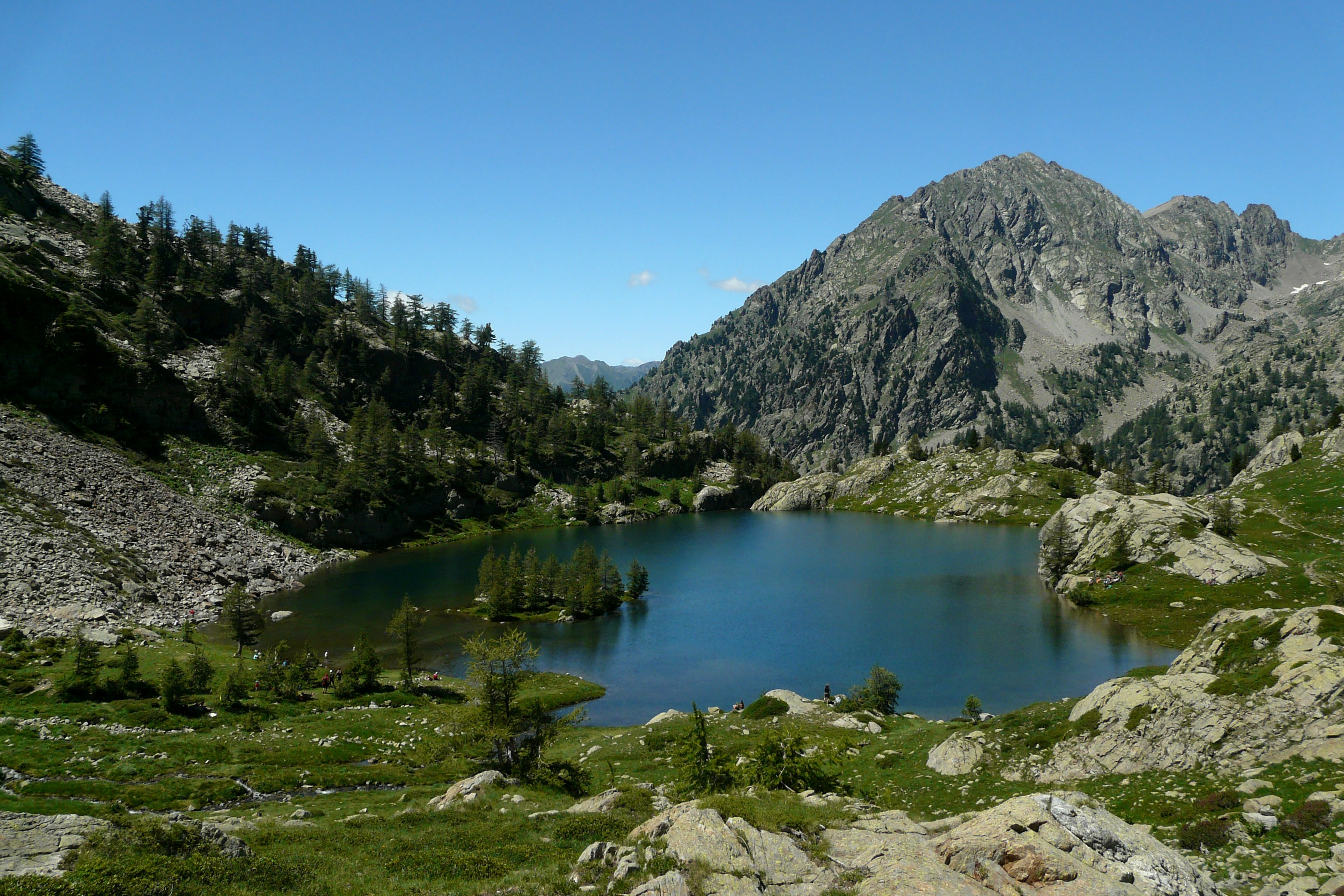 Trécolpas lake and mount Pélago (2768 m), Mercantour national park, Maritime Alps, France